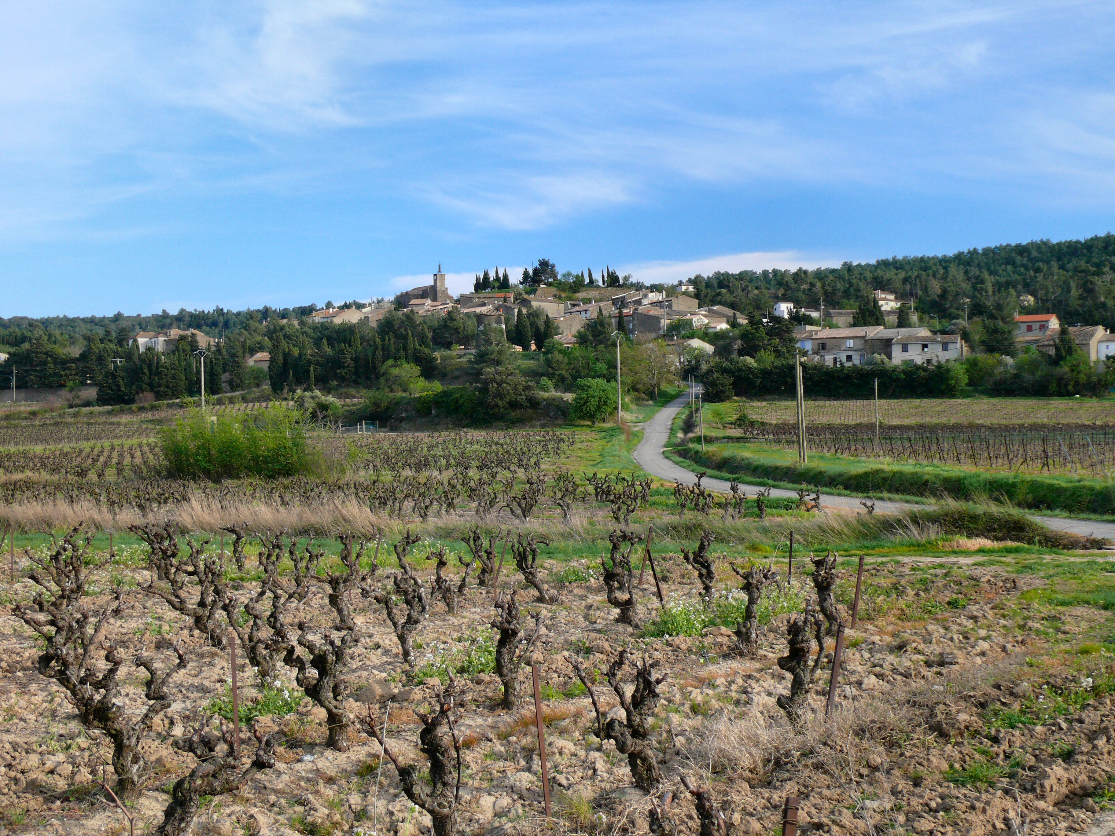 Winyard and Montbrun-des-Corbières vilage, Languedoc-Roussillon, Aude, France, April 2010